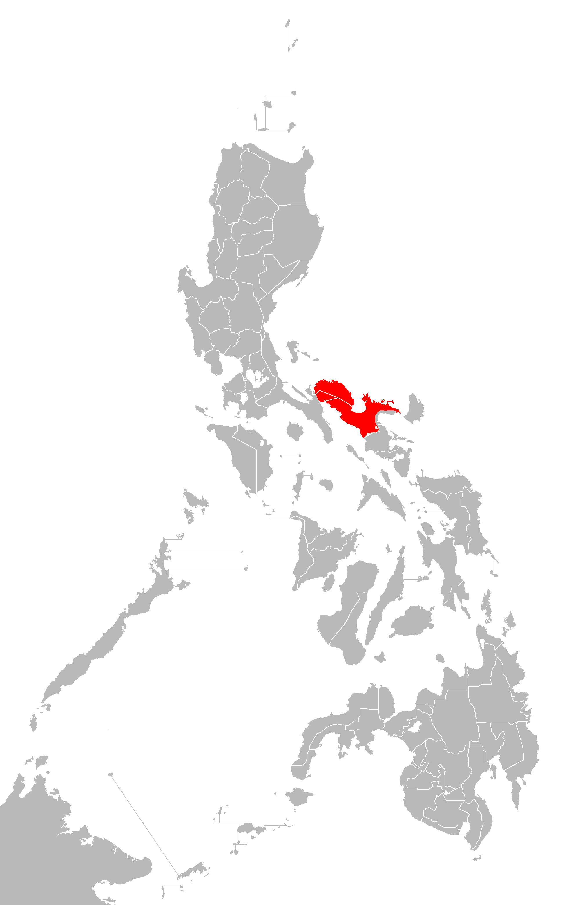 Map of the Philippines showing the location of the historical Ambos Camarines and Camarines. Modern provincial boundaries in white.